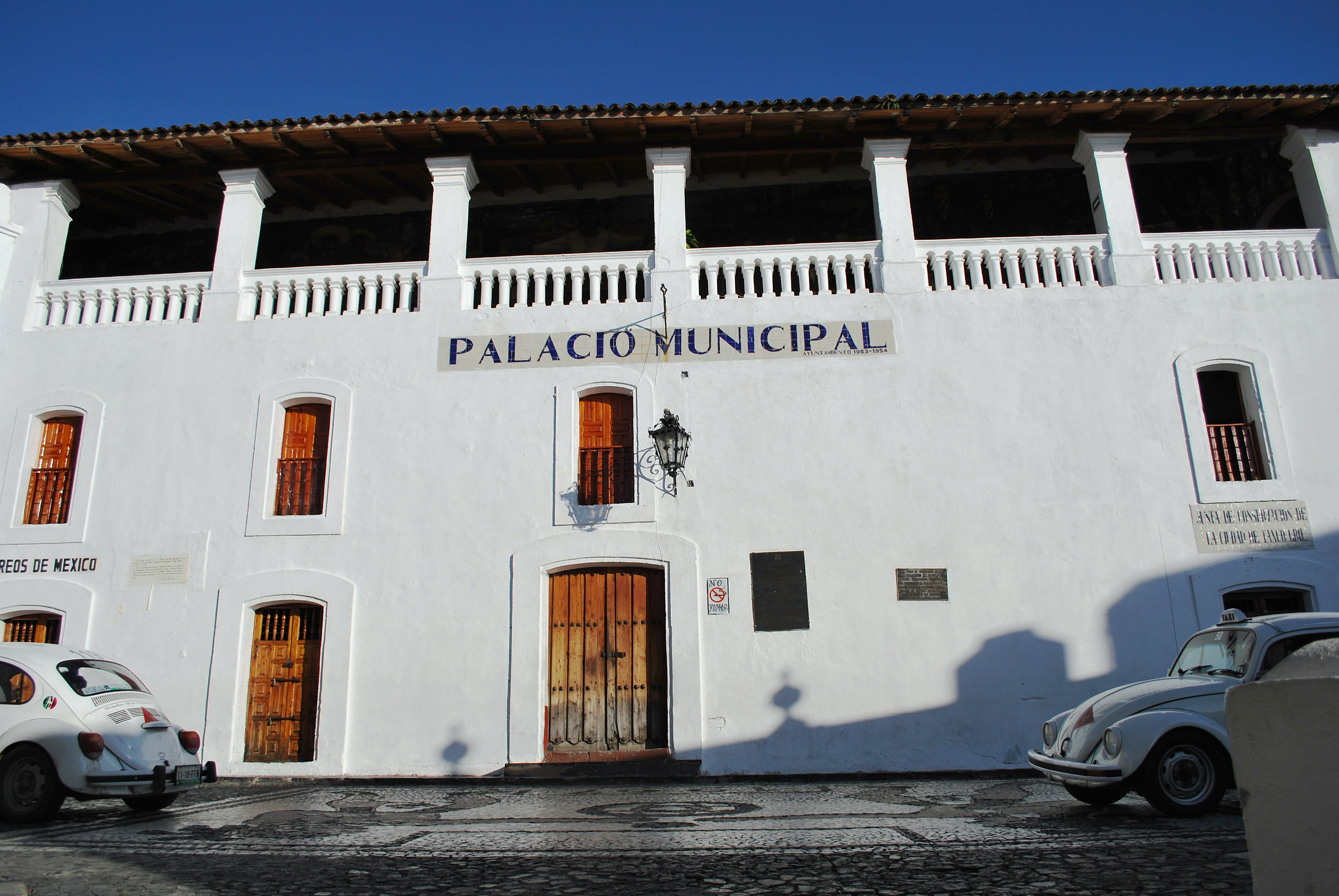 Municipal Palace of Taxco de Alarcon, Guerrero, Mexico